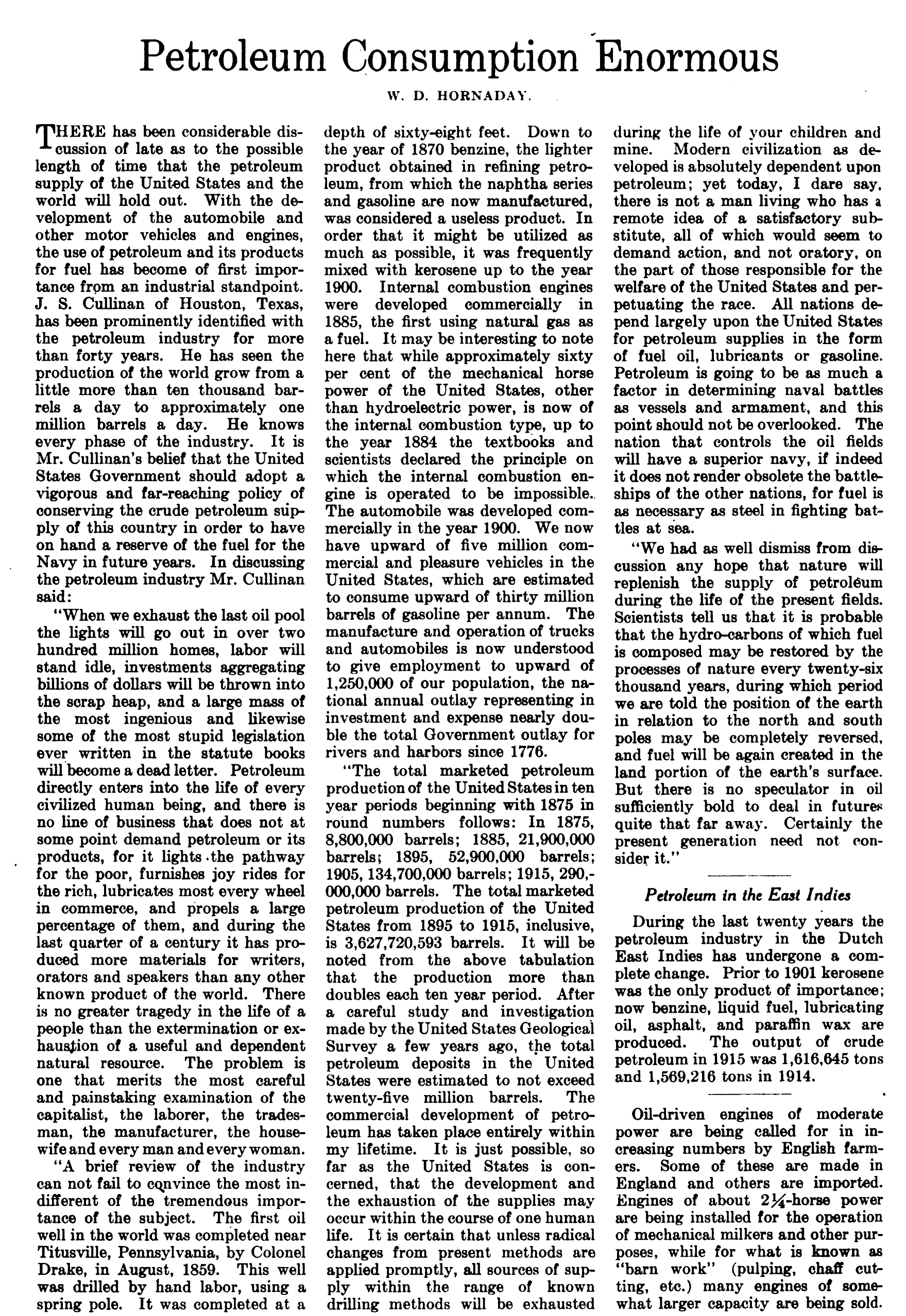 Hornaday W.D., "Petroleum consumption enormous", article in Tractor and Gas Engine Review, volume 11, issue 5, May 1918.